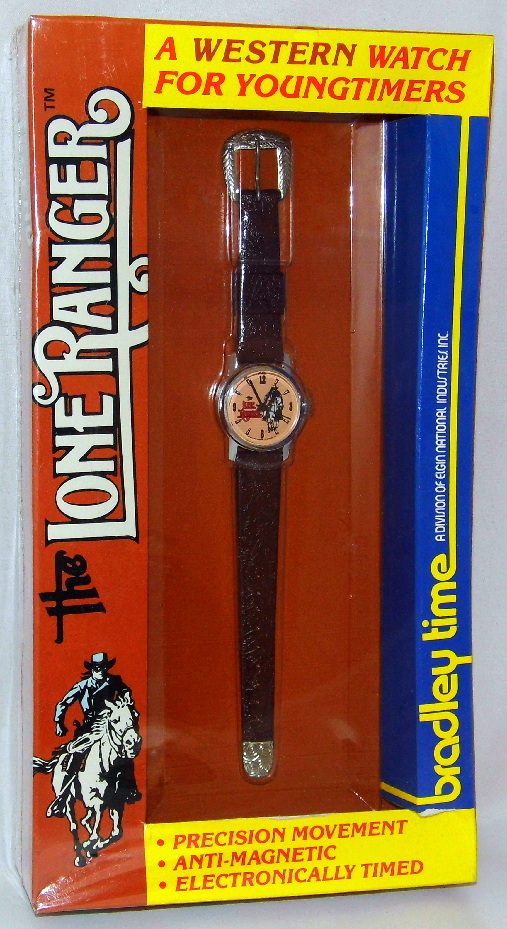 Vintage The Legend Of The Lone Ranger Wrist Watch By Bradley Time, A Division Of Elgin National Industries, Manual Wind, Copyright 1980